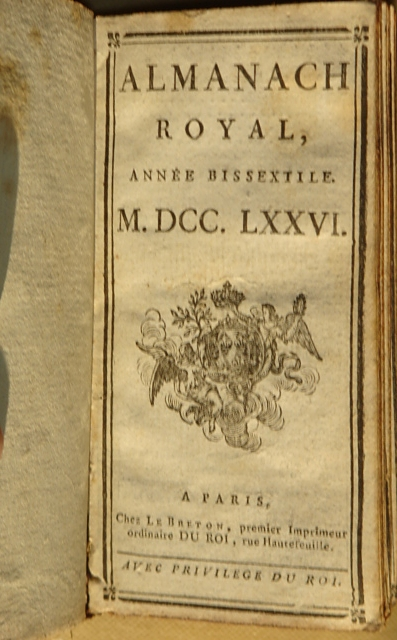 Almanach royal, frontispice. Édition lliliputienne in-24°